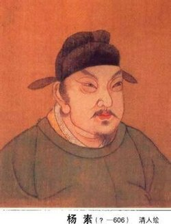 A Portrait of Yang Su a Sui Dynasty General